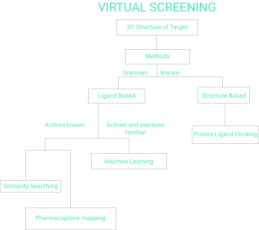 Flow Chart of Virtual Screening